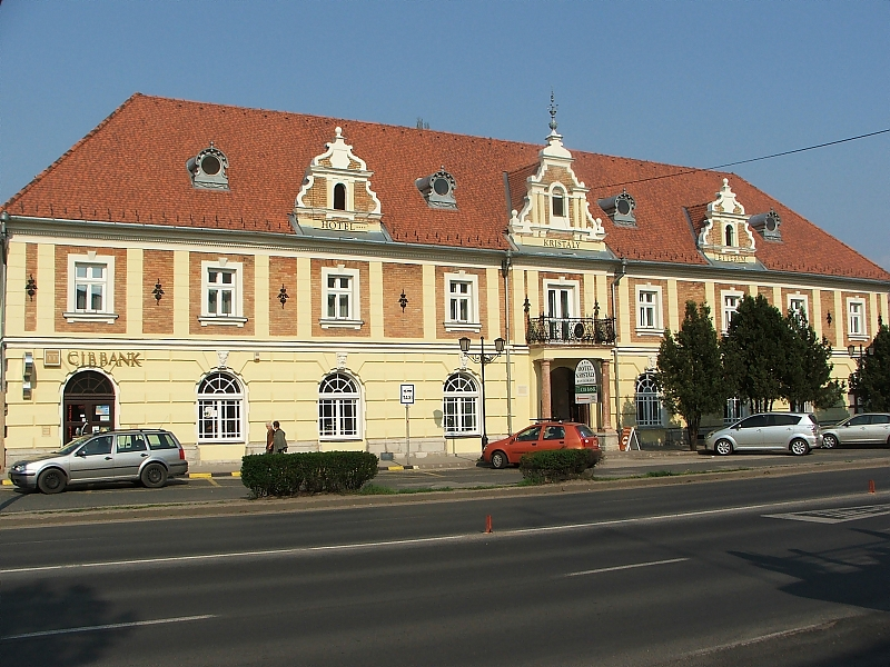 Hotel Kristály. Listed ID 6391 - Ady Endre u. 22. Tata